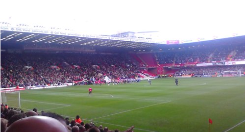 Picture taken at Bramall Lane at the Npower League One match between Sheffield United and Sheffield Wednesday (16 Oct 2011)